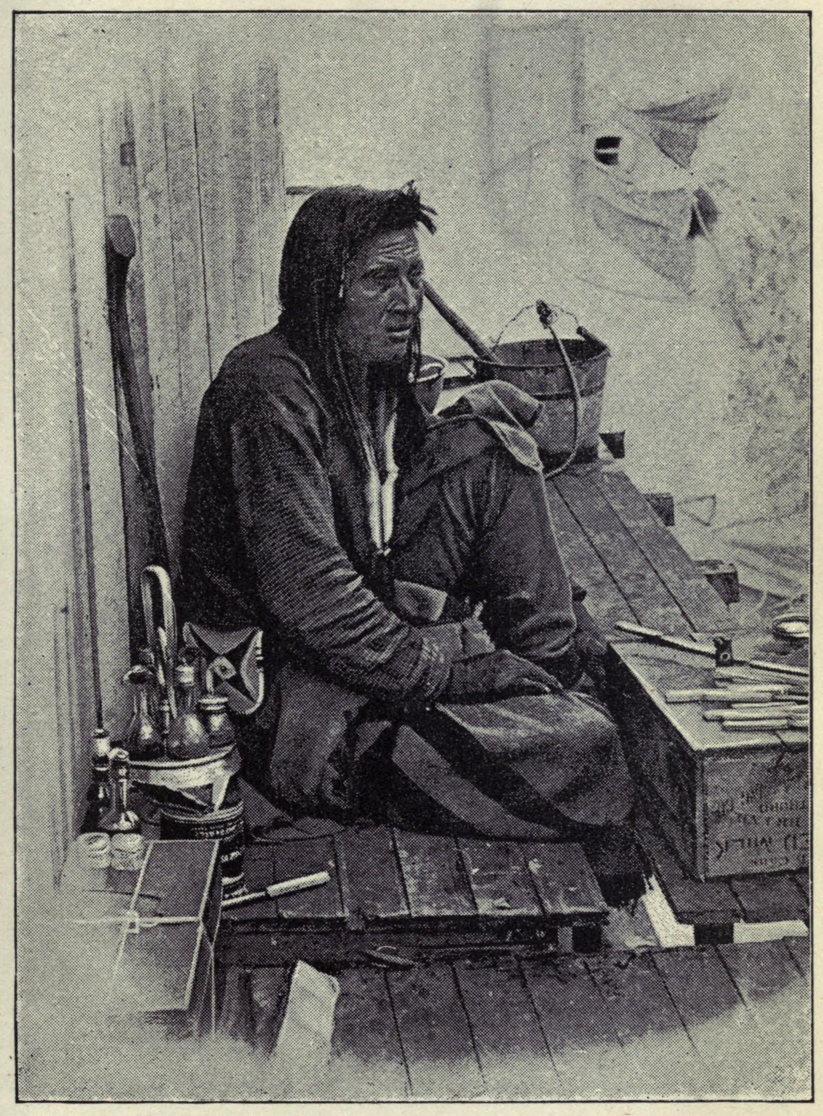 A member of the Ktunaxa or Kootenai/Kootenay First Nation serving as a crewman aboard the sternwheeler Duchess, first steamboat to run on the Columbia River above Golden, BC. This is taken in 1887.